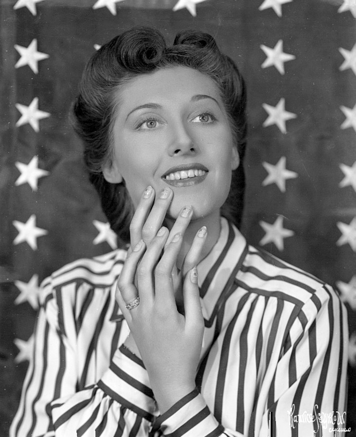 Photo of Vivian Fridell from the radio daytime drama Backstage Wife. The item has no copyright markings on it as can be seen in the links above.